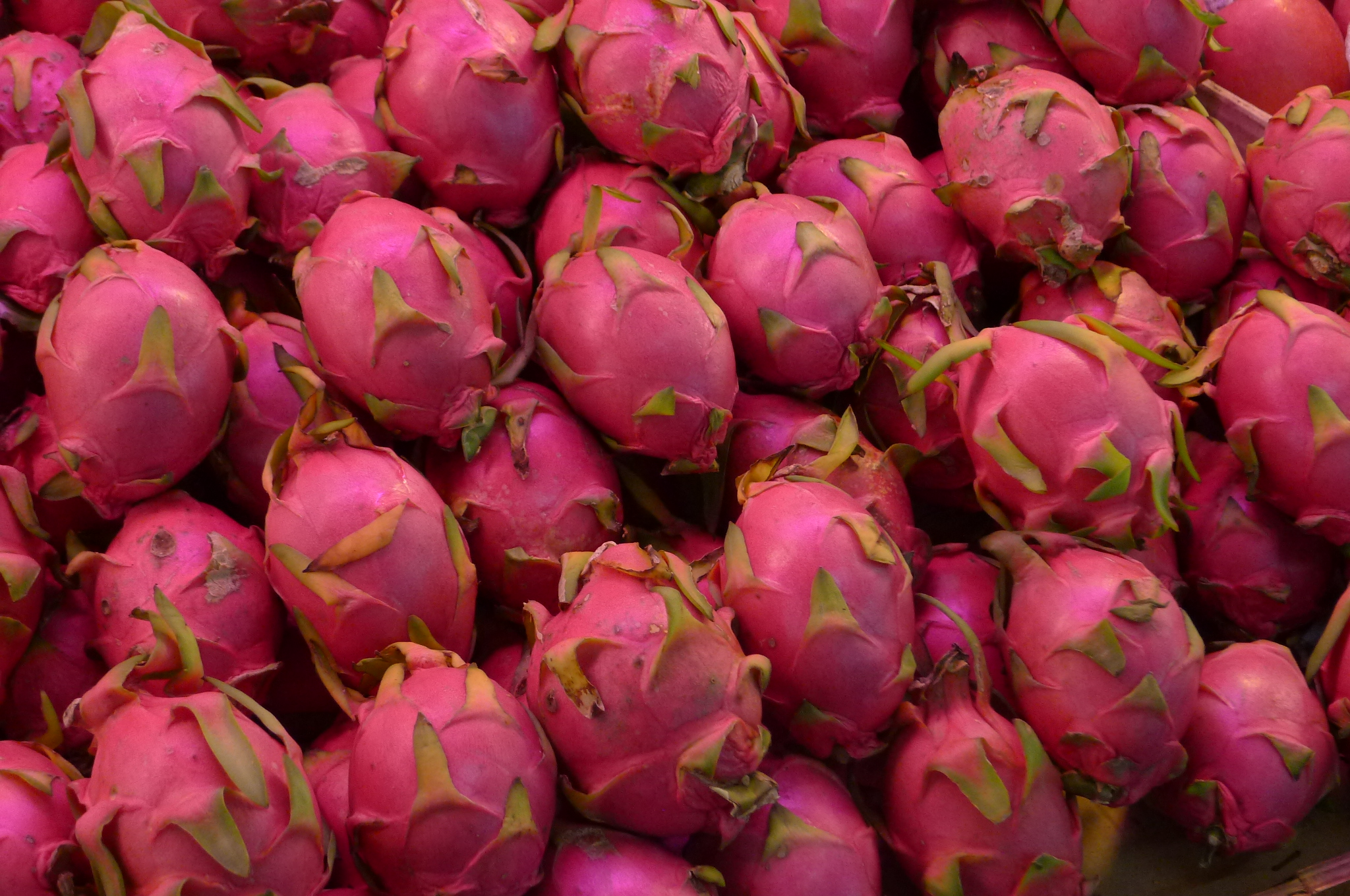 Dragonfruits, in a fruit stall in Canton.